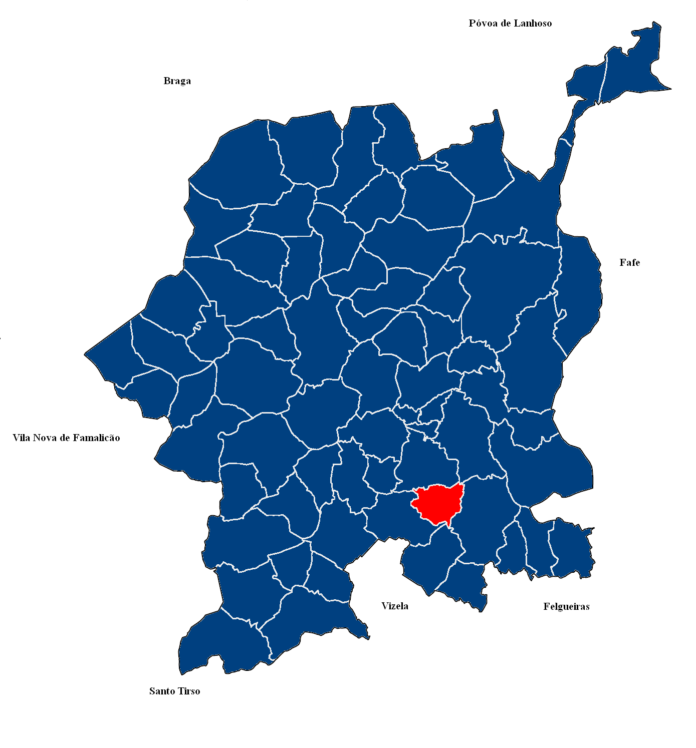 Map of Pinheiro parish, Guimarães Municipality, Portugal